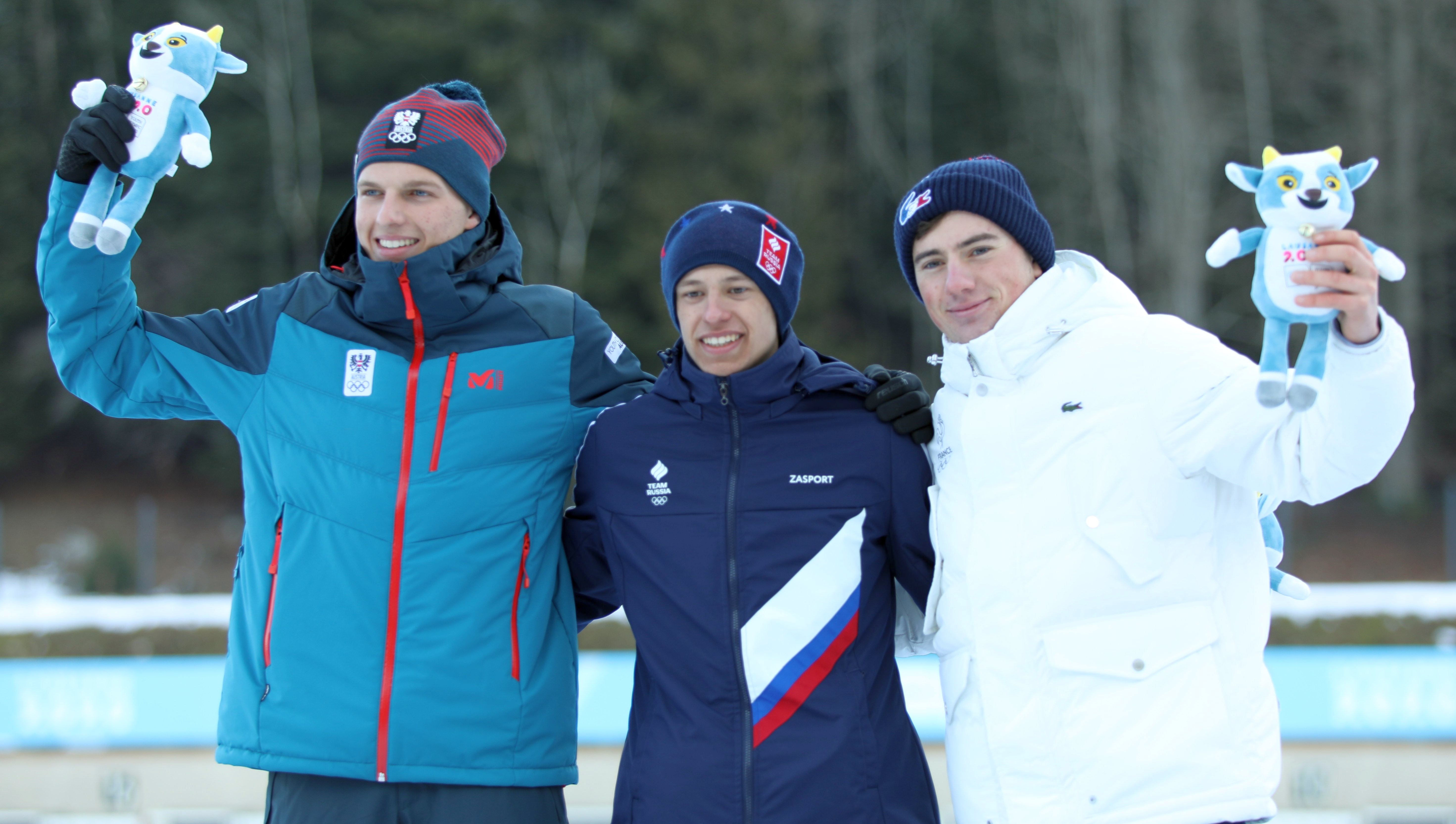 Biathlon at the 2020 Winter Youth Olympics in Lausanne at 11 January 2020 – Individual men; Mascot ceremony with medailists Oleg Domichek (Russia, Gold), Lukas Haslinger (Austria, Silver) und Mathieu Garcia (France, Bronze) and Athlete Role Model Henrik L'Abée-Lund (Norway)